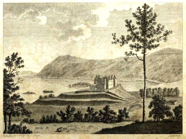 Drawing of Kenmure Castle, south-west Scotland, by Francis Grose